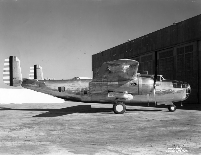 PictionID:46171386 - Catalog:16_007570 - Title:North American NA-40 mfr 20.101-233 - Filename:16_007570.TIF - Image from the Ray Wagner Collection. Ray Wagner was Archivist at the San Diego Air and Space Museum for several years and is an author of several books on aviation --- ---Please Tag these images so that the information can be permanently stored with the digital file.---Repository: San Diego Air and Space Museum